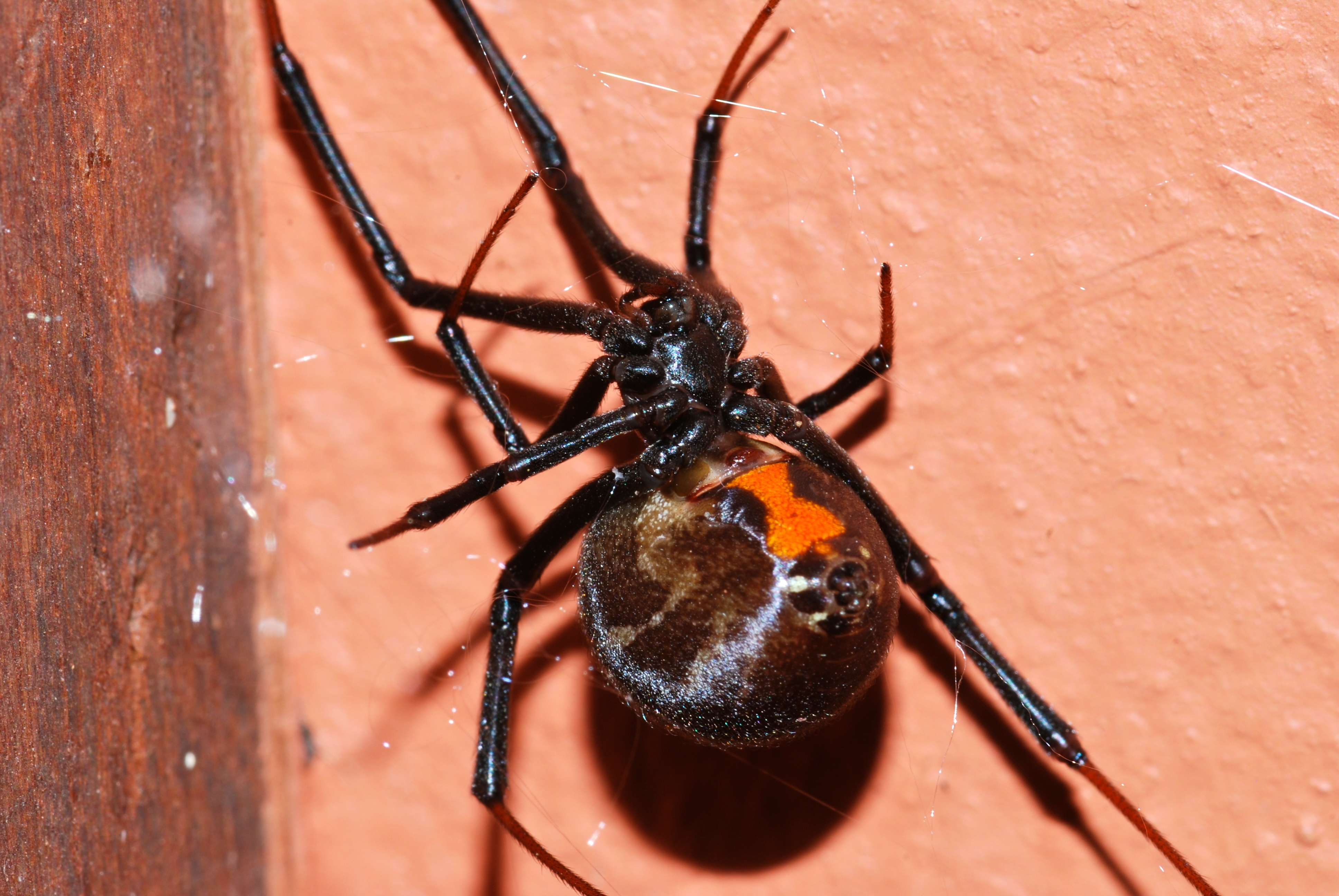 Brown widow (Latrodectus geometricus) in Mata-Mata Camp, Kgalagadi Transfrontier Park, SOUTH AFRICA